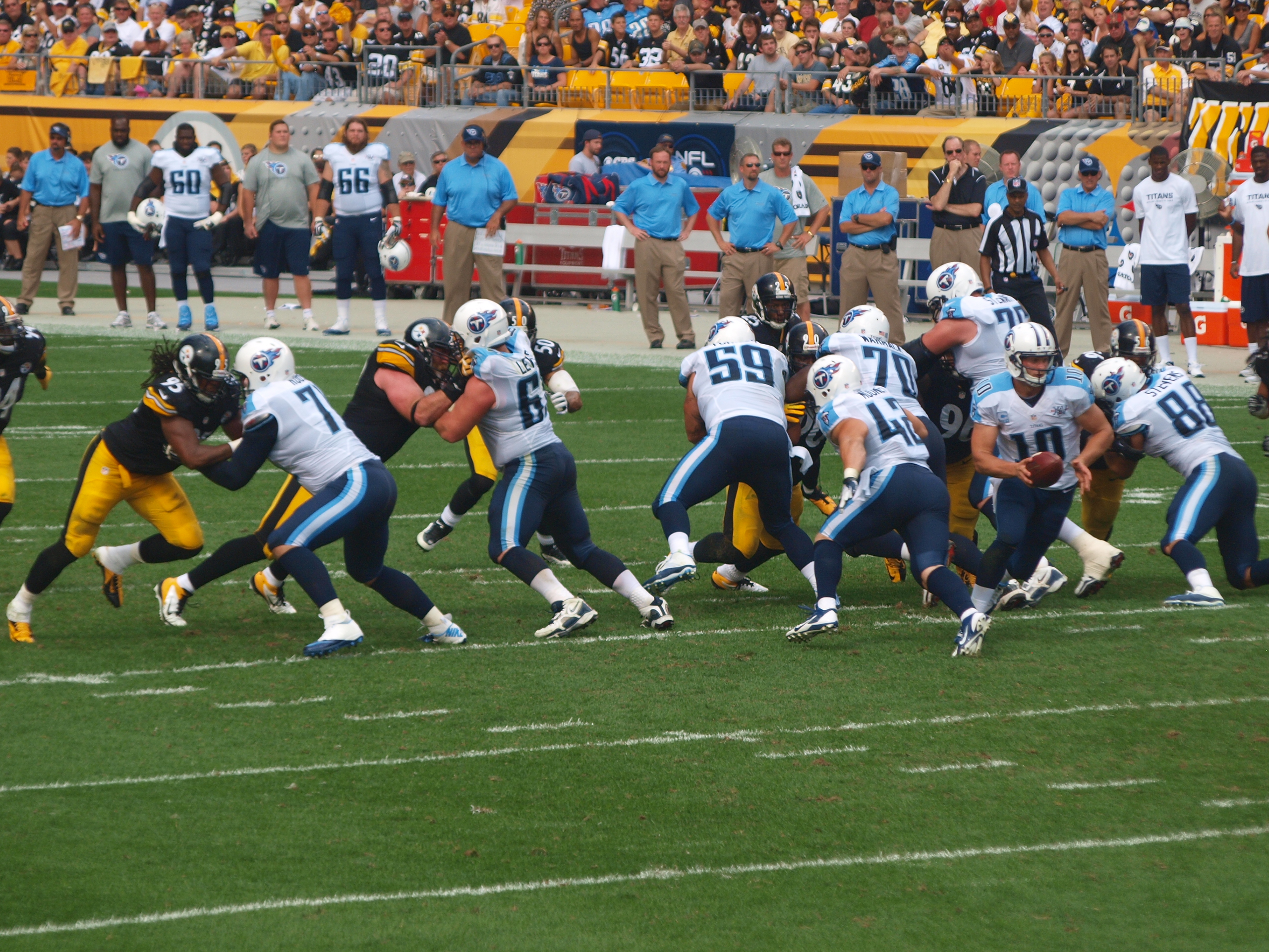 Jake Locker (#10) hands off the football vs. Pittsburgh Steelers, 09.13.2013